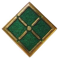 An ITIL Foundation Certificate pin used to attatch on a shirt. The diamond is the ITIL logo, there are three levels: Green: Foundation certificate Blue: Practitioner's certificate Red: Manager's certificate